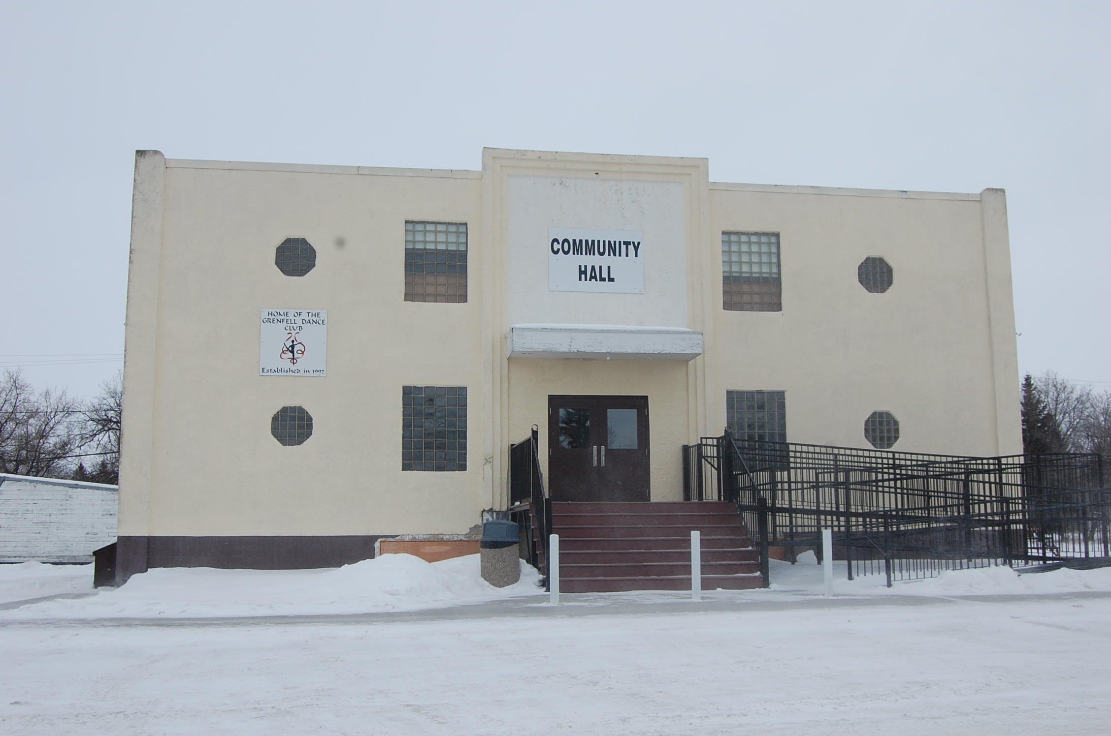 Community Center at Grenfell, Saskatchewan. Located on Desmond St. between Wolesley Ave. and Regina Ave.